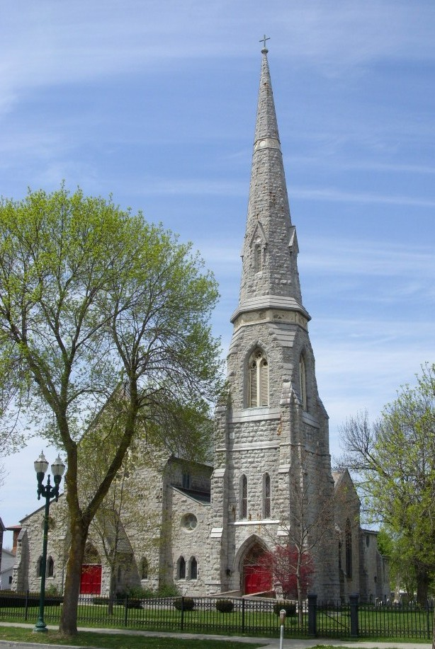 St Peters Episcopal Church Complex, Auburn, Cayuga County, New York. Listed on the National Register of Historic Places.